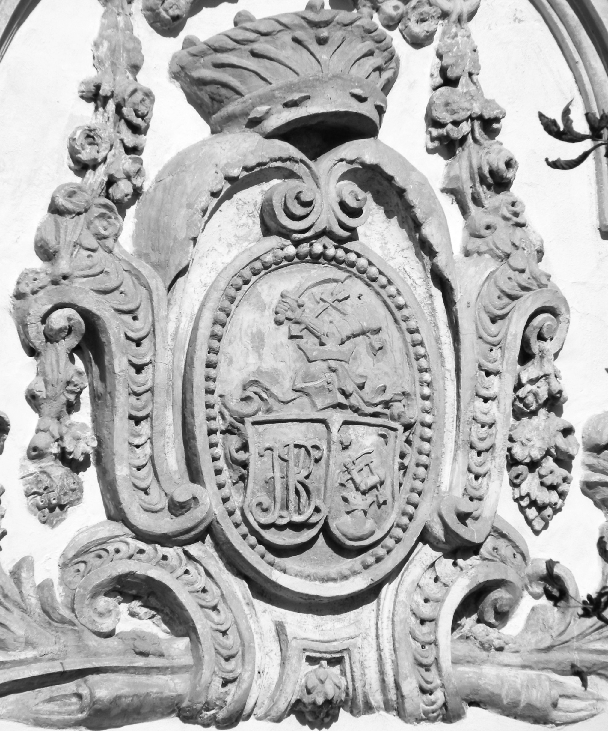 Coat of arms of Miklós Kondé, bishop of Beograd, Serbia (1792 - 1800), bishop of Oradea Mare, Romania (1800 - 1802). Yellow Manor House, Dunajská Streda.